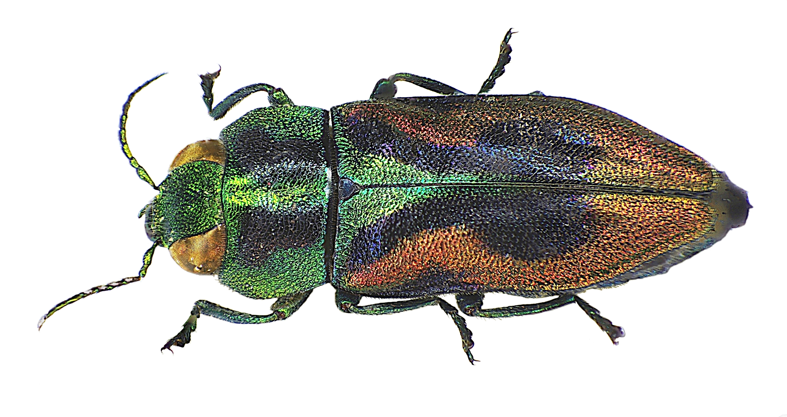 Anthaxia candens